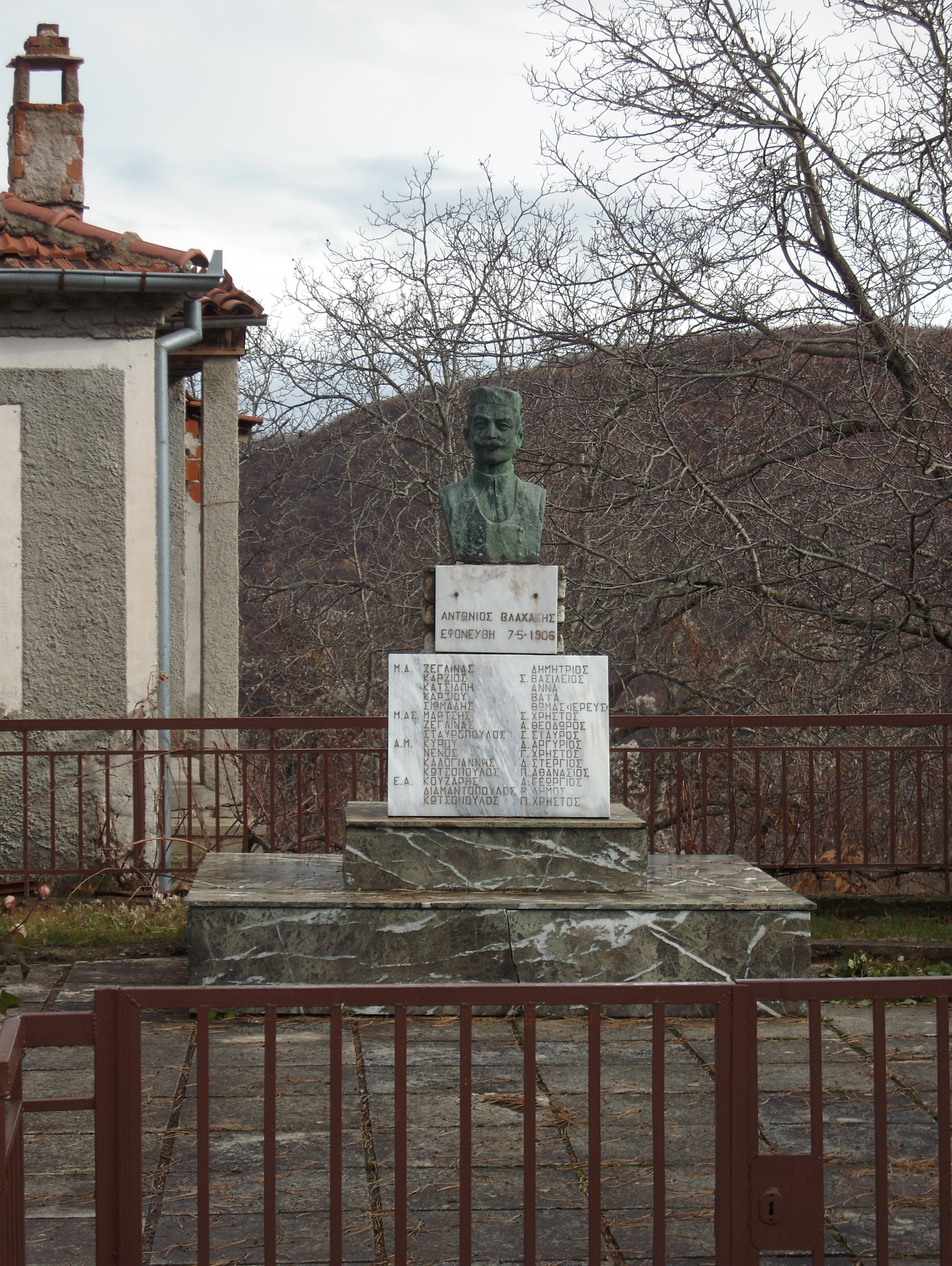 Osnichani / Kastanofyto